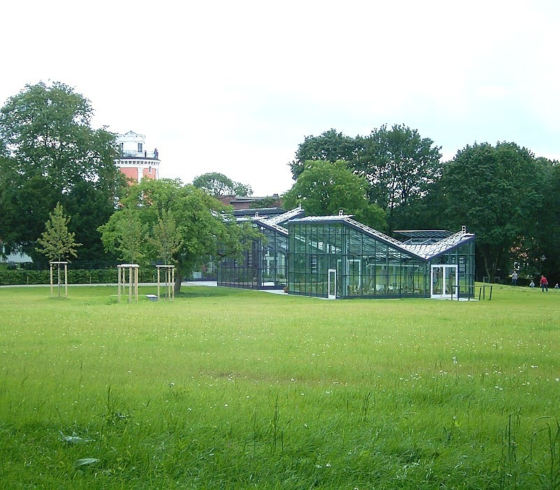 Description: Botanischer Garten Wuppertal Source: self-made Date: created 21. Jul. 2007 Author: Frank Vincentz Permission: GFDL (self made)